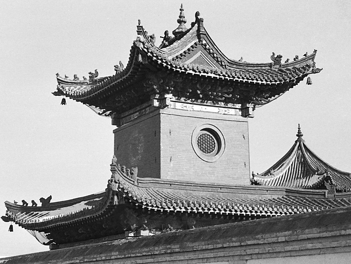 Choijin Lama Monastery (museum). Ulan Bator, Mongolia (1972)